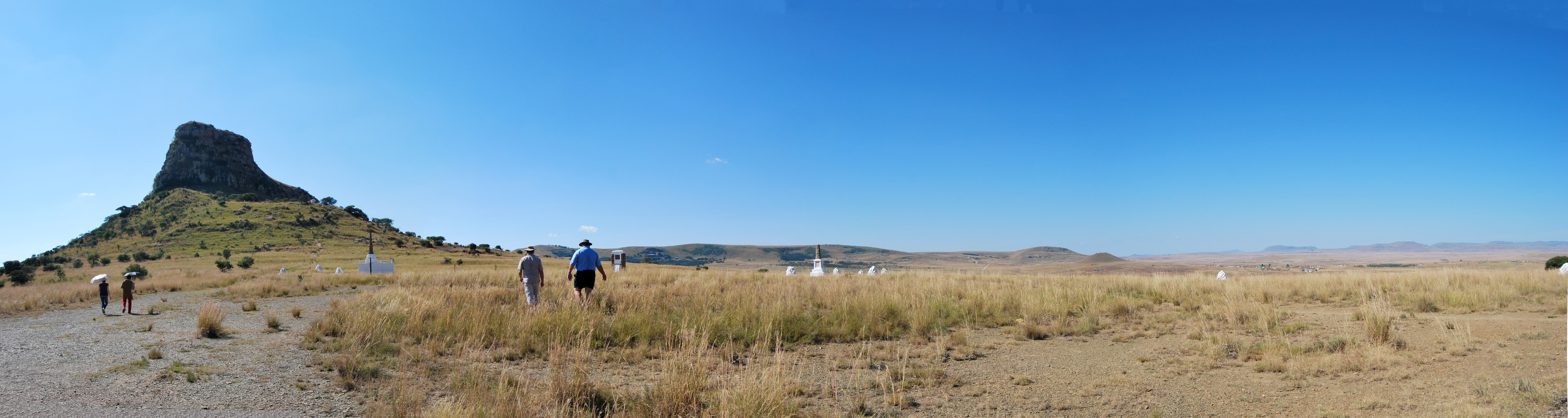 This media shows a South African Protected Site with SAHRA file reference 9/2/434/0001 See also: External entry in South African Heritage Resource Agency database. View of Isandlwana Hill and Battlefield